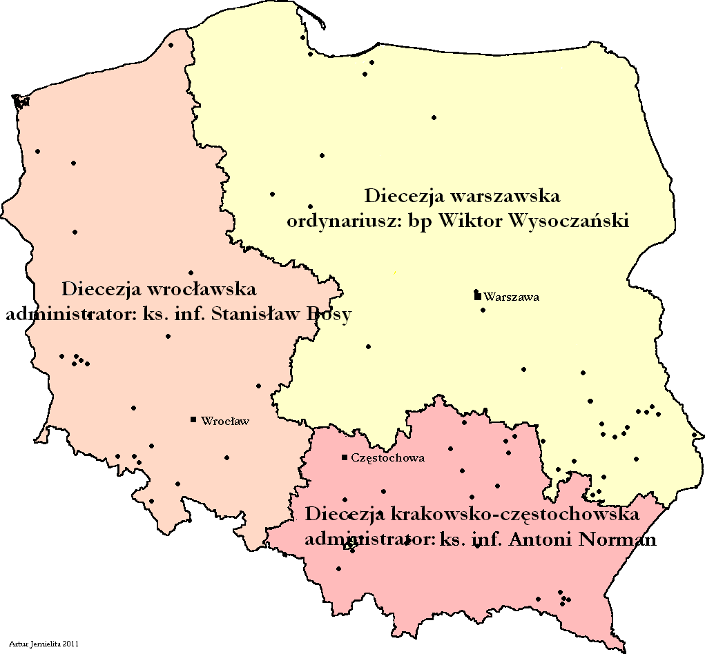 Polish Catholic Church Arch-diocese administration maps